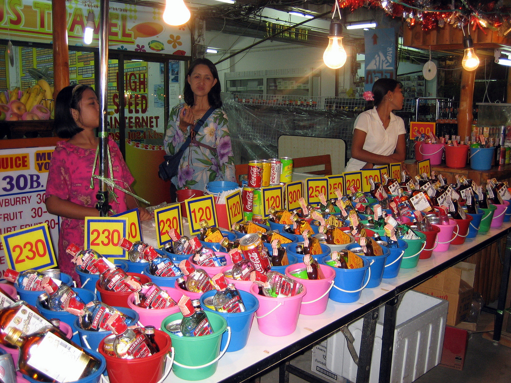 Alcohol sales at the Full Moon Party at Haad Rin, Ko Pha Ngan, Thailand.